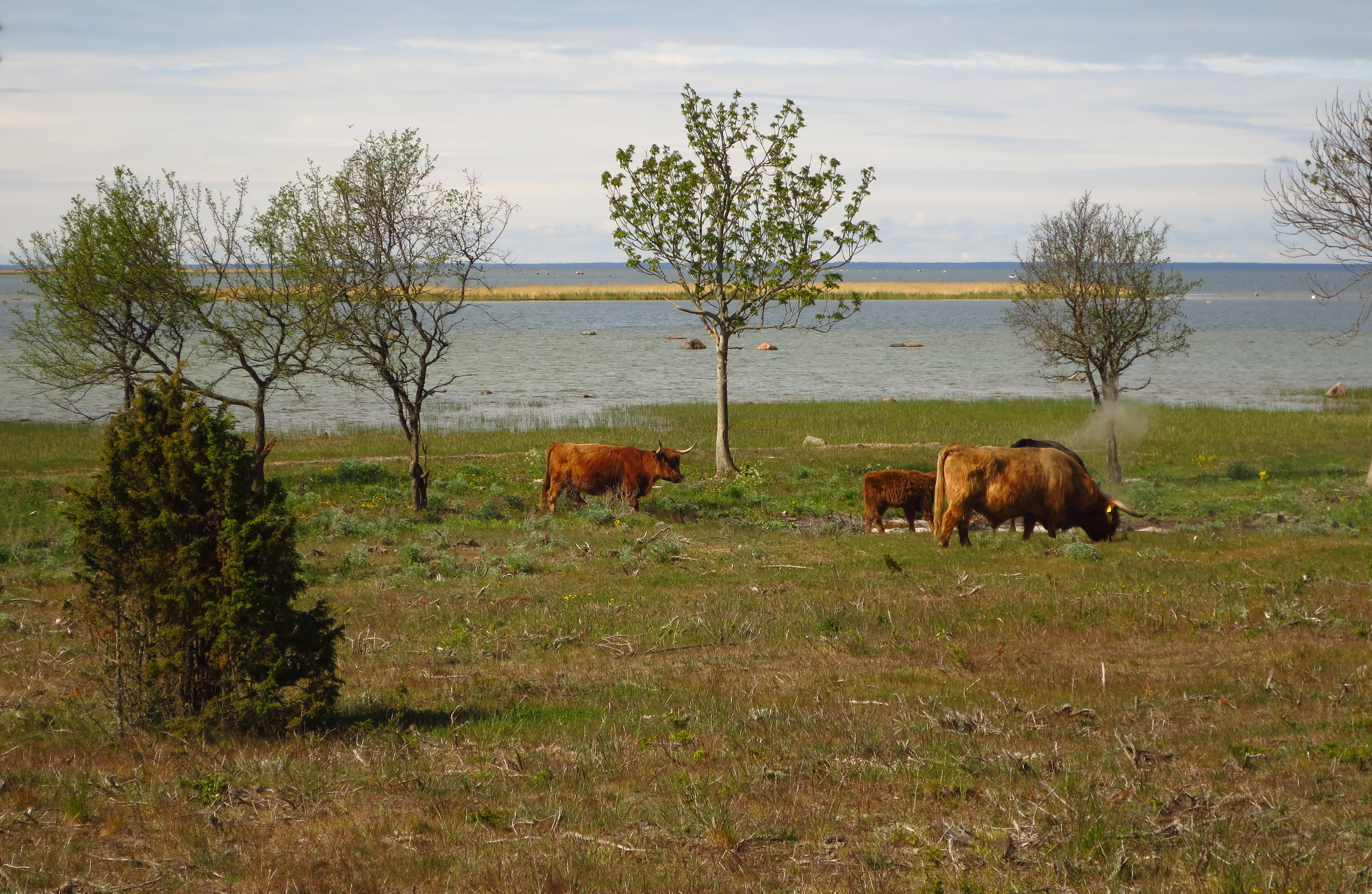 Veised Rumpo poolsaarel Vormsi MKAl